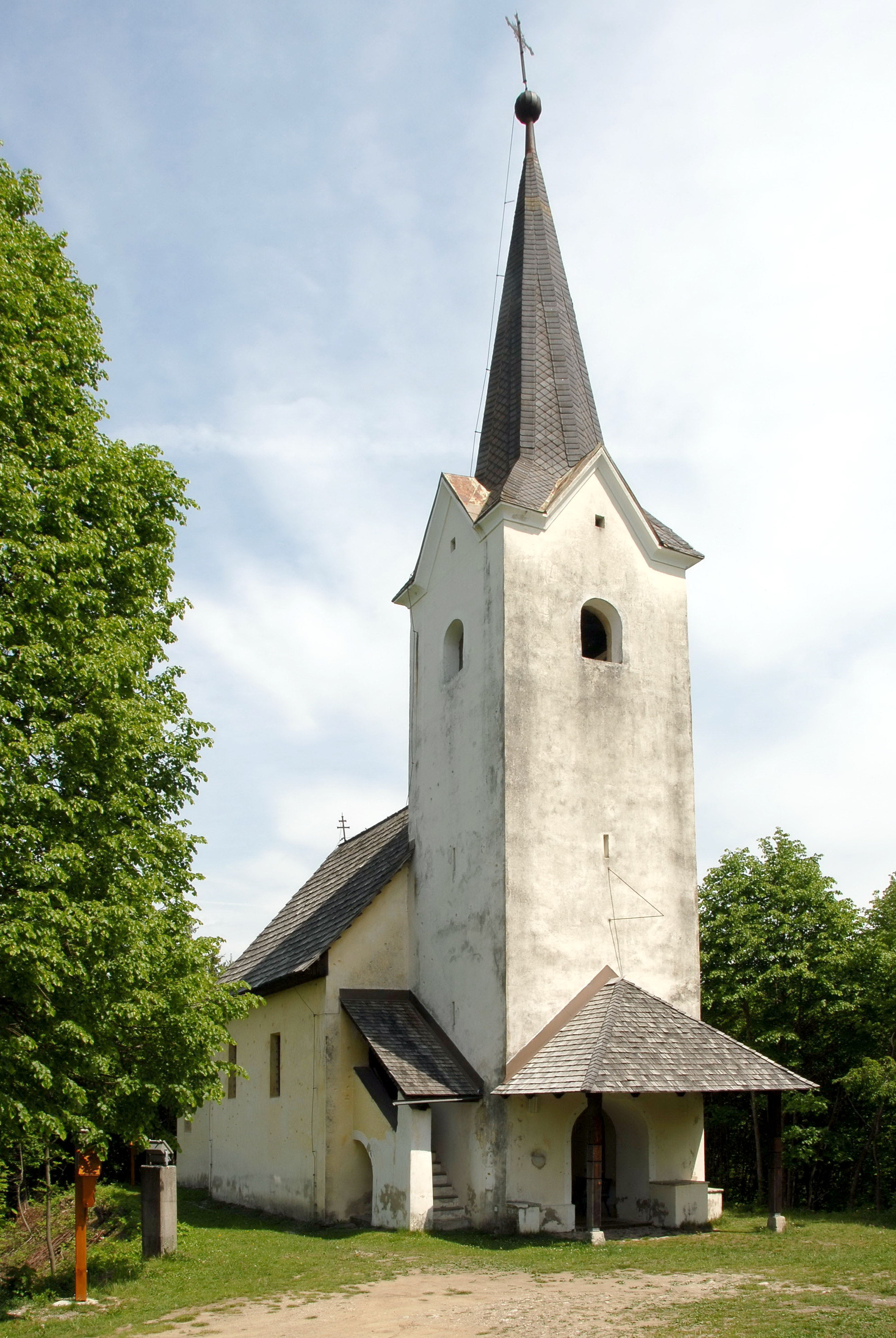 Subsidiary church Holy Cross, market town Feistritz im Rosental, district Klagenfurt Land, Carinthia, Austria, EU